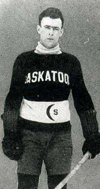 Hockey Hall of Fame forward Bill Cook as a member of the Saskatoon Crescents of the Western Canada Hockey League in the 1920s.